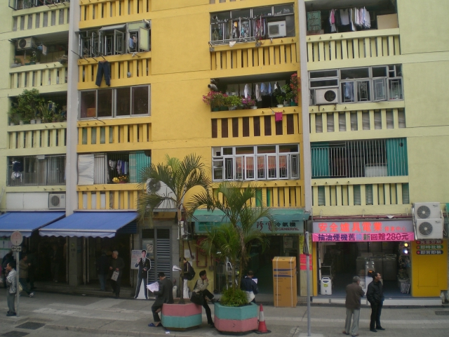 Wah Fu Estate (華富邨) is a public housing estate located by the Kellett Bay, Southern District, Hong Kong. It was built on a new town concept in 1971 and was renovated in around 2003. (Photo created by me.)